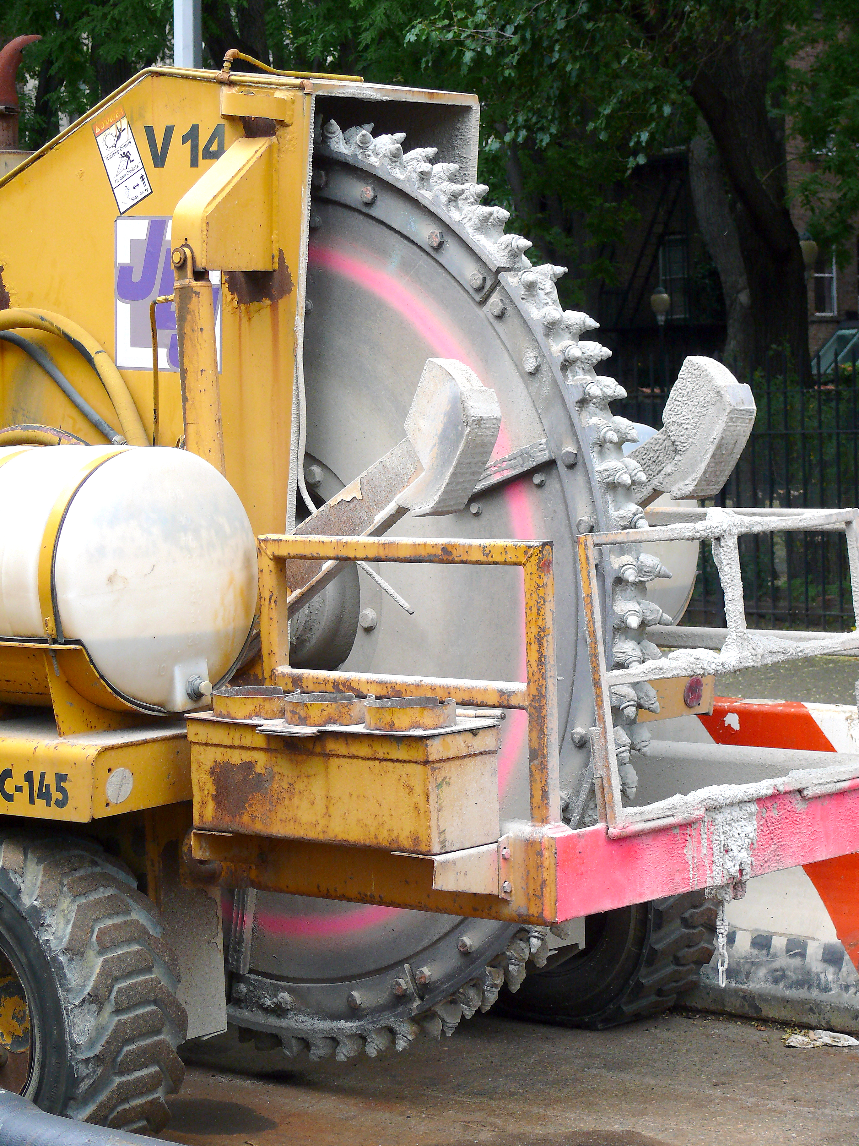 This machine cuts concrete for the purpose of getting to under ground pipes and general street repairs.